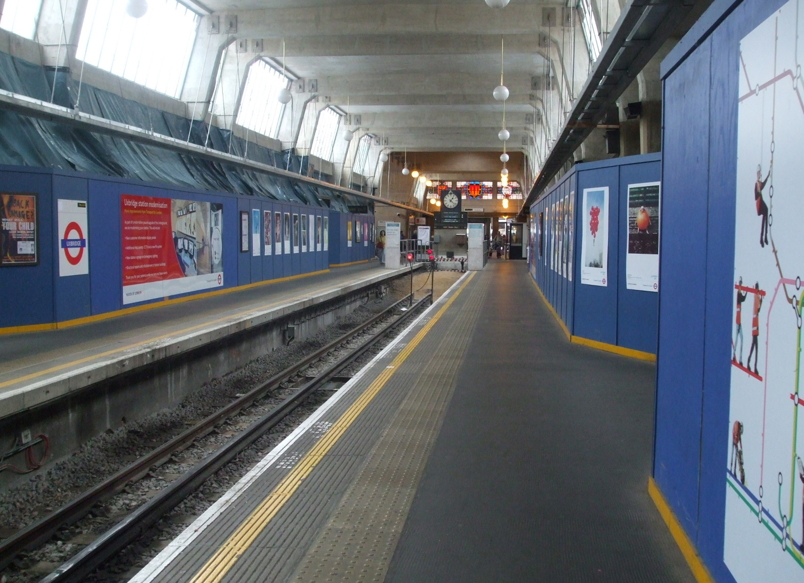 Uxbridge tube station centre track viewed from platform 3 (also served by platform 2, presently not used as of July 2008), looking west "towards buffers". Stained glass in ticket hall area visible in background. Refurbishment ongoing, July 2008